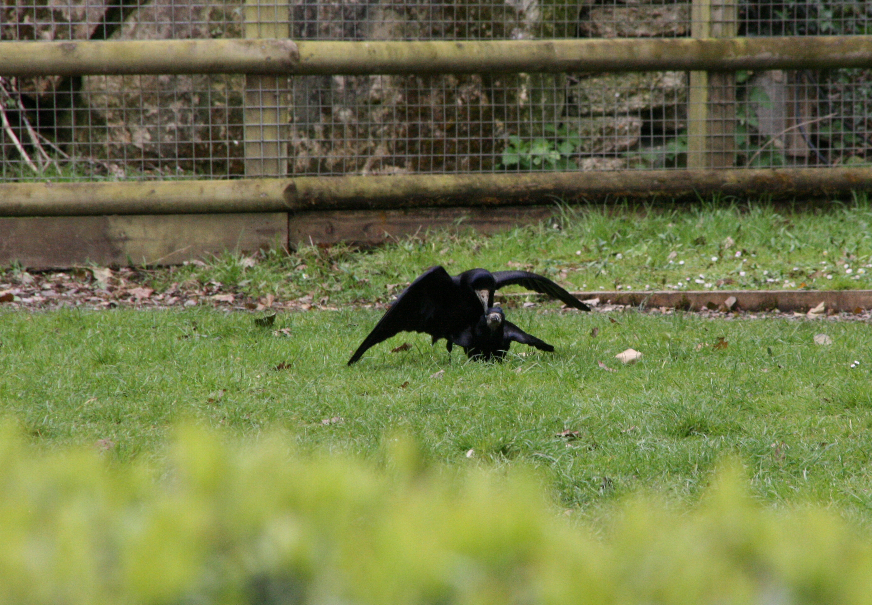 Mating Rooks (Corvus frugilegus). Photo 02 of 14 Marwell Zoo, United Kingdom.